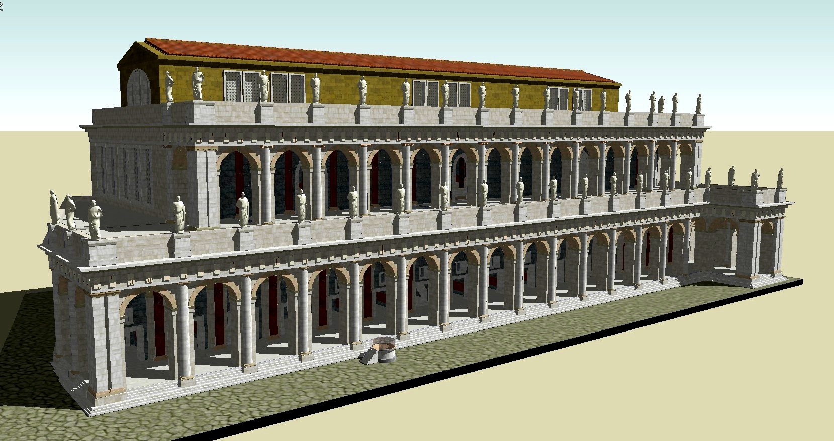 This is a derivative work of a 3D, Computer generated image of the Basilica Aemilia by the model maker, Lasha Tskhondia - L.VII.C.[1]. Variations to the original model include shadows, adjusted for good lighting as well as the file being adjusted for color and contrast.